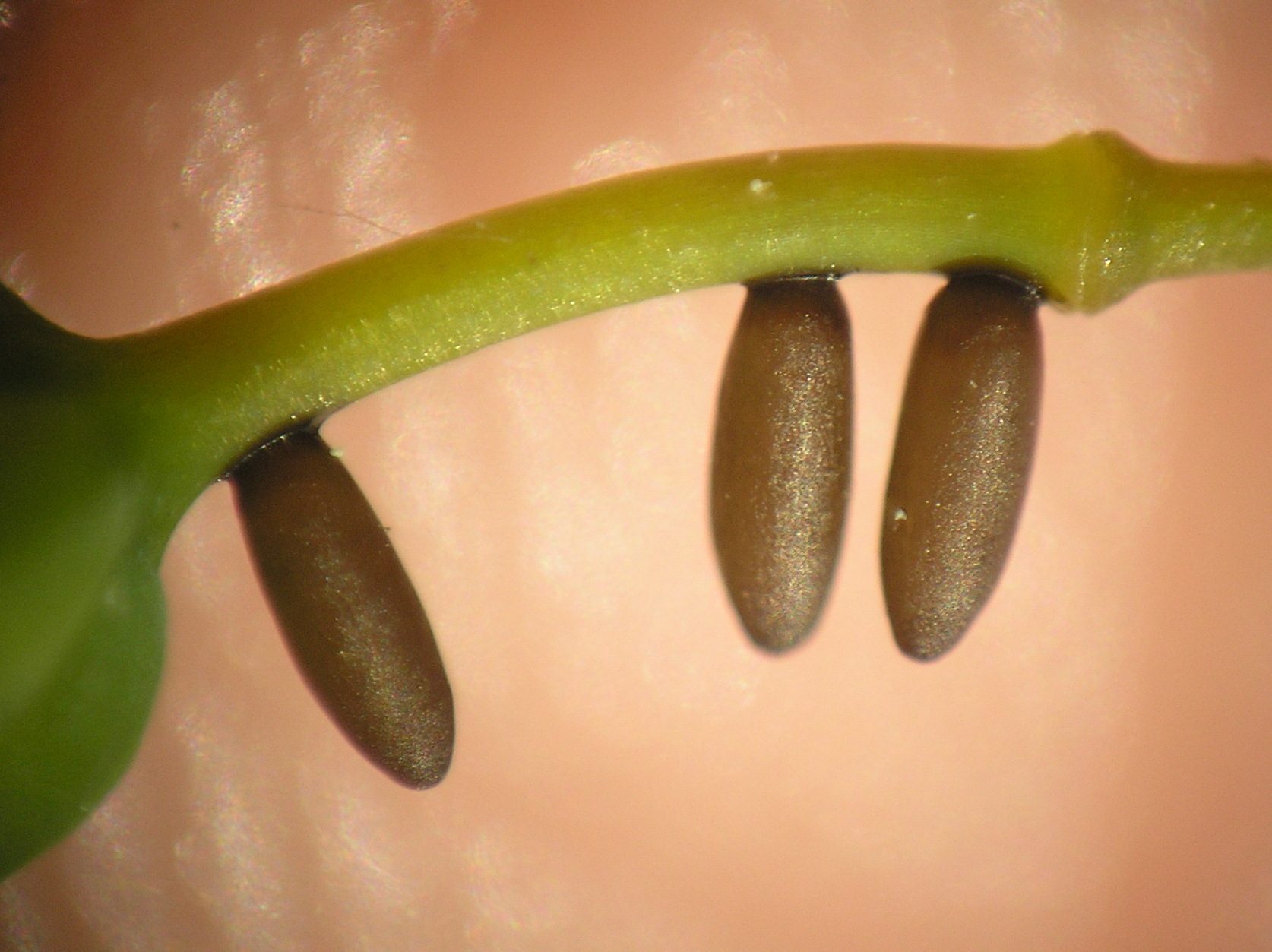 Eggs of asparagus beetle Crioceris asparagi on the stem of a flower of an asparagus plant. The photographer put his palm behind the flower, probably to help the camera focus - and maybe also for scale. Highly magnified.